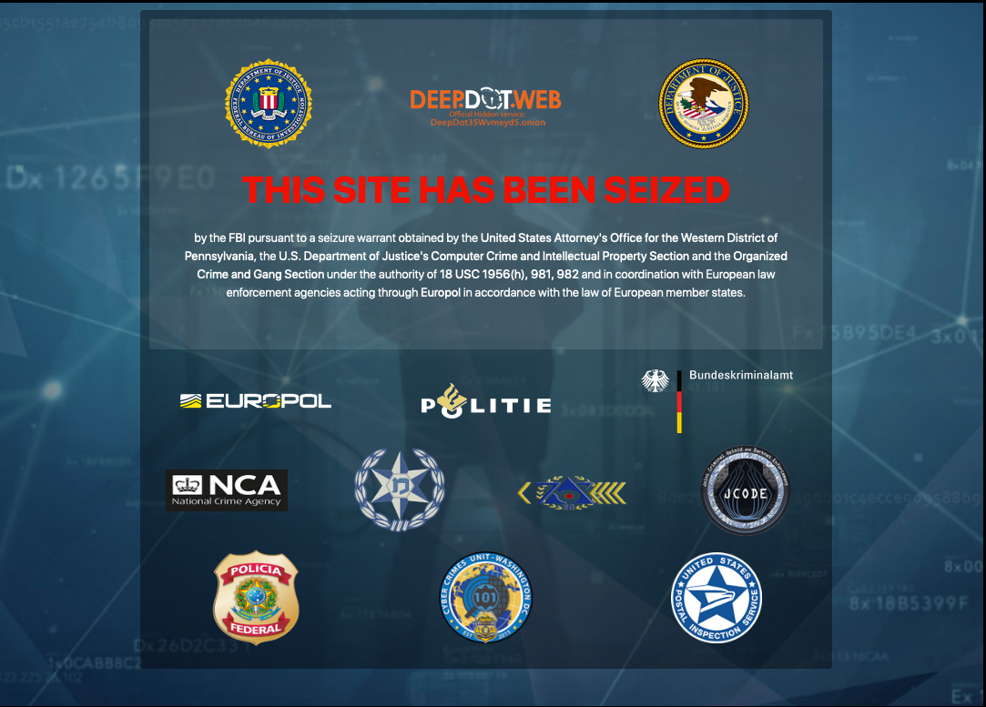 blocked site screen of deep dot web